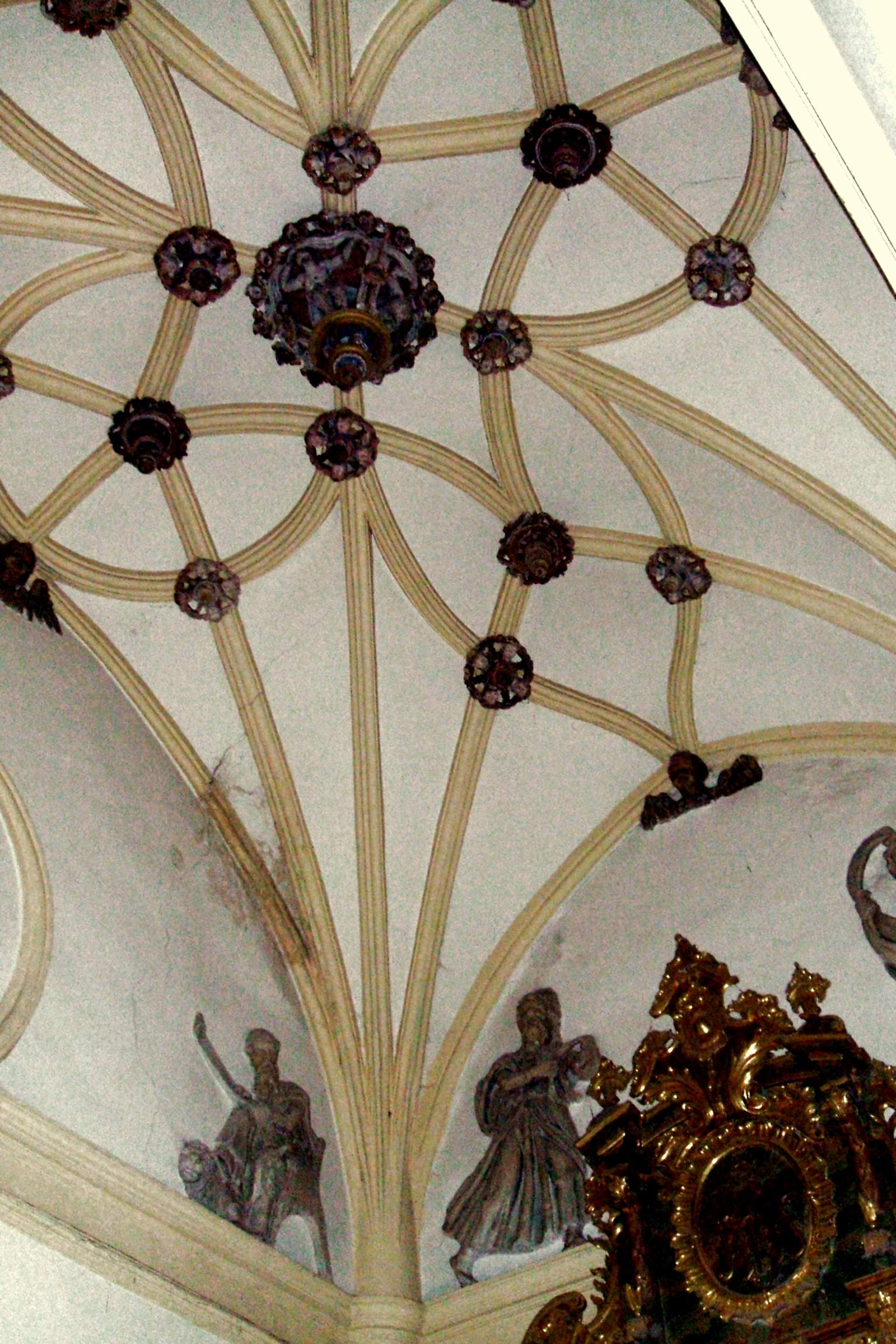 Bóveda gótico-renacentista en la Capilla de San Ildefonso de la iglesia de San Francisco de Palencia (C y L, España)